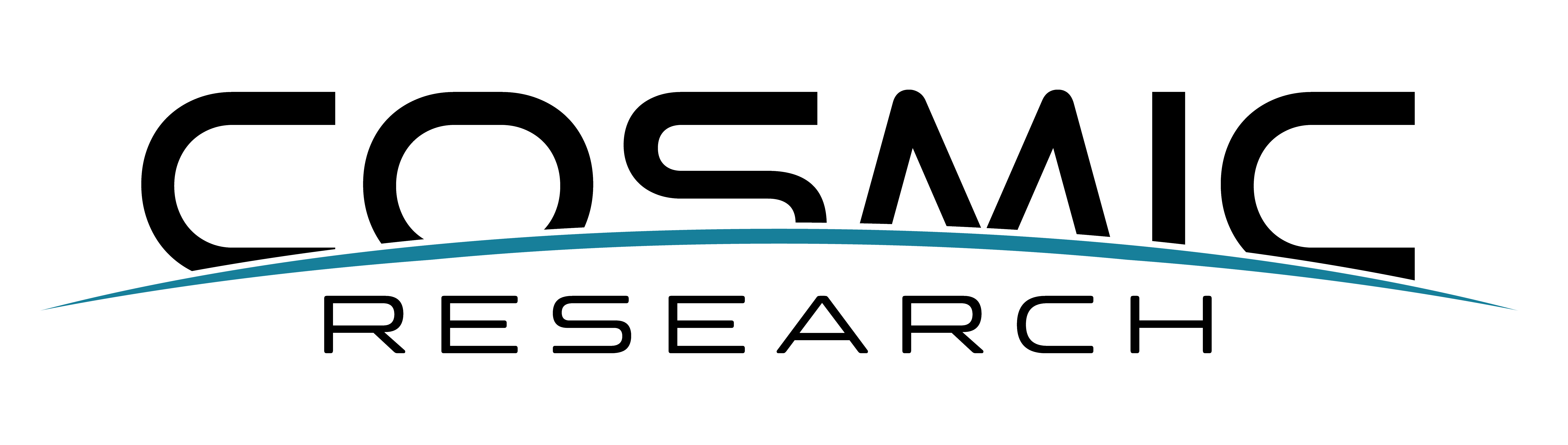 Cosmic Research logo